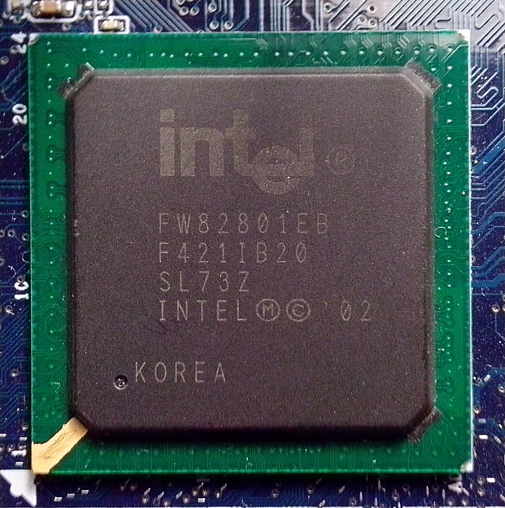 Intel's Southbridge (I/O Controller Hub) ICH5 (i82801EB)